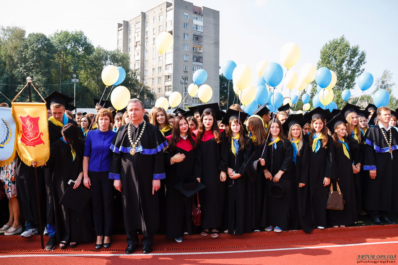 Inavguratsiya